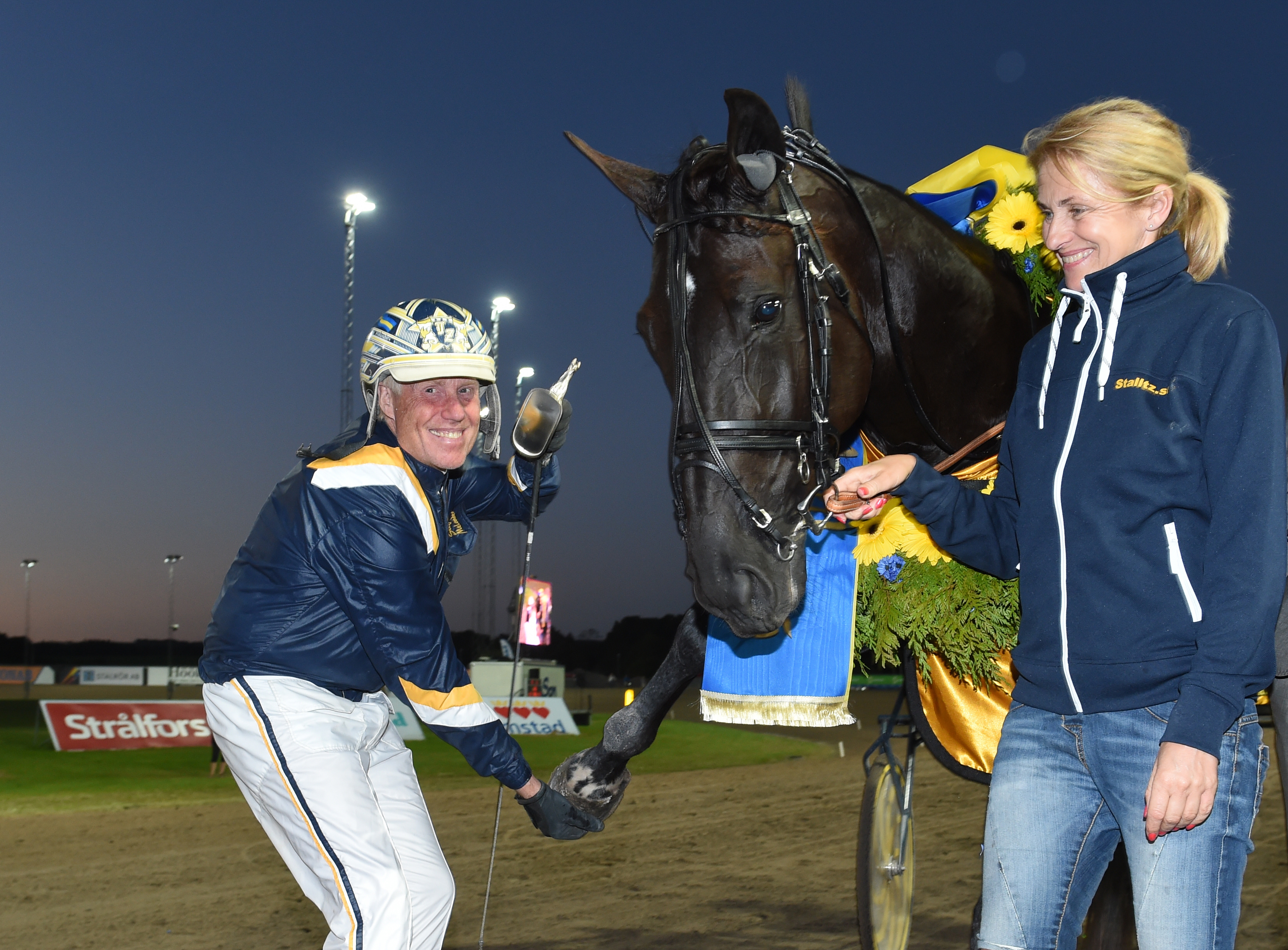 Stefan Melander, horse Nuncio and Catharina Lundström after winning "Sprintermästaren" in Halmstad, Sweden in July 2015.